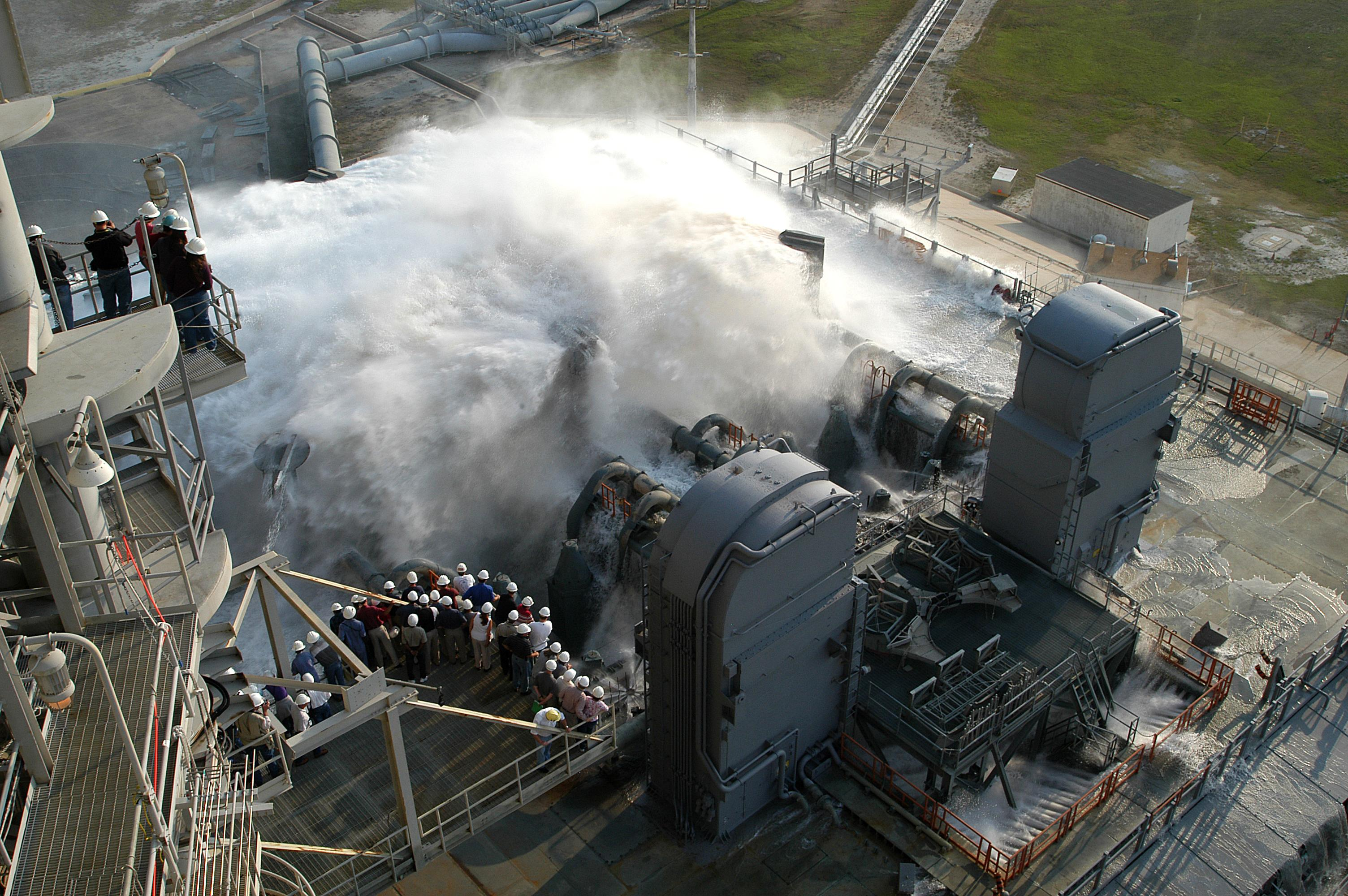 Water is released onto Mobile Launcher Platform 2 (MLP 2) on Launch Pad 39A at the start of a water sound suppression test. Workers and the media (left) are on hand to witness the rare event. This test is being conducted following the replacement of the six main system valves, which had been in place since the beginning of the Shuttle Program and had reached the end of their service life. Also, the hydraulic portion of the valve actuators has been redesigned and simplified to reduce maintenance costs. The sound suppression water system is installed on the launch pads to protect the orbiter and its payloads from damage by acoustical energy reflected from the MLP during launch. The system includes an elevated water tank with a capacity of 300,000 gallons. The tank is 290 feet high and stands on the northeast side of the Pad. The water is released just before the ignition of the orbiter's three main engines and twin solid rocket boosters, and flows through parallel 7-foot-diameter pipes to the Pad area.